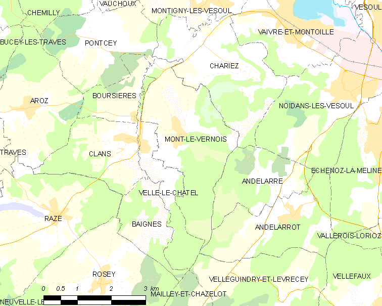 Map of French municipality